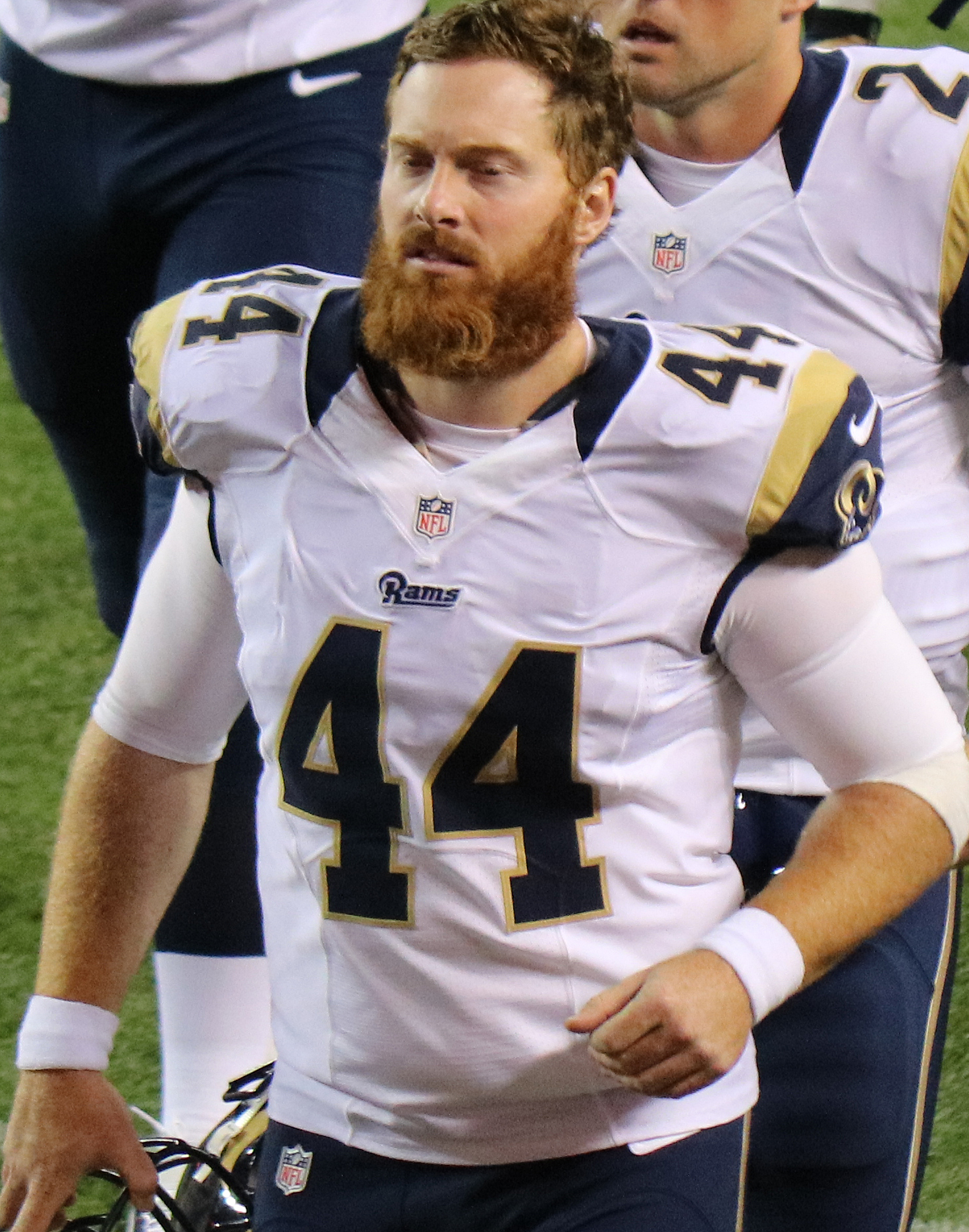 Jacob McQuaide, a player on the National Football League.